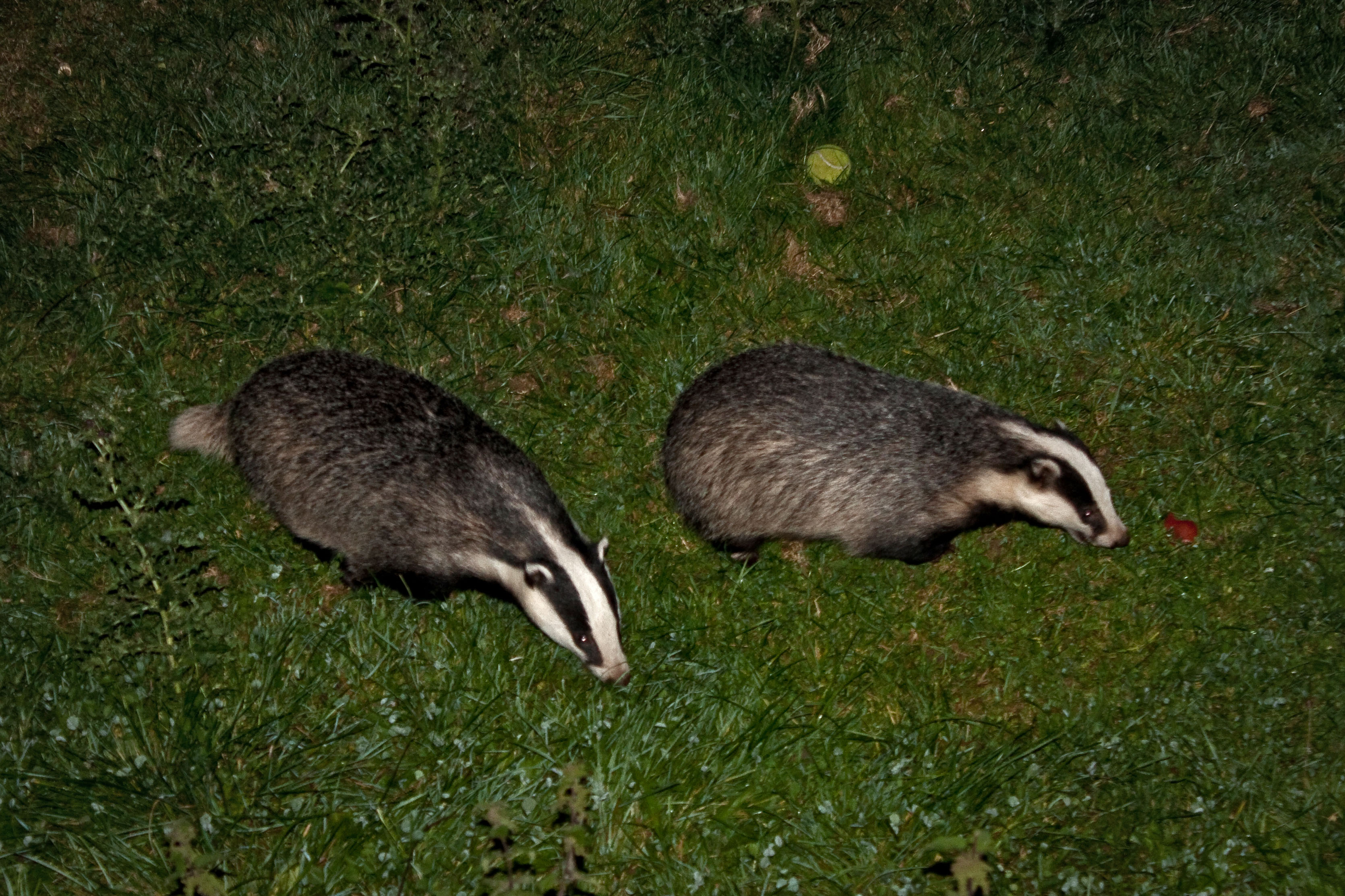 Two badgers by night, searching the grass for dog biscuits. Somerset, England.